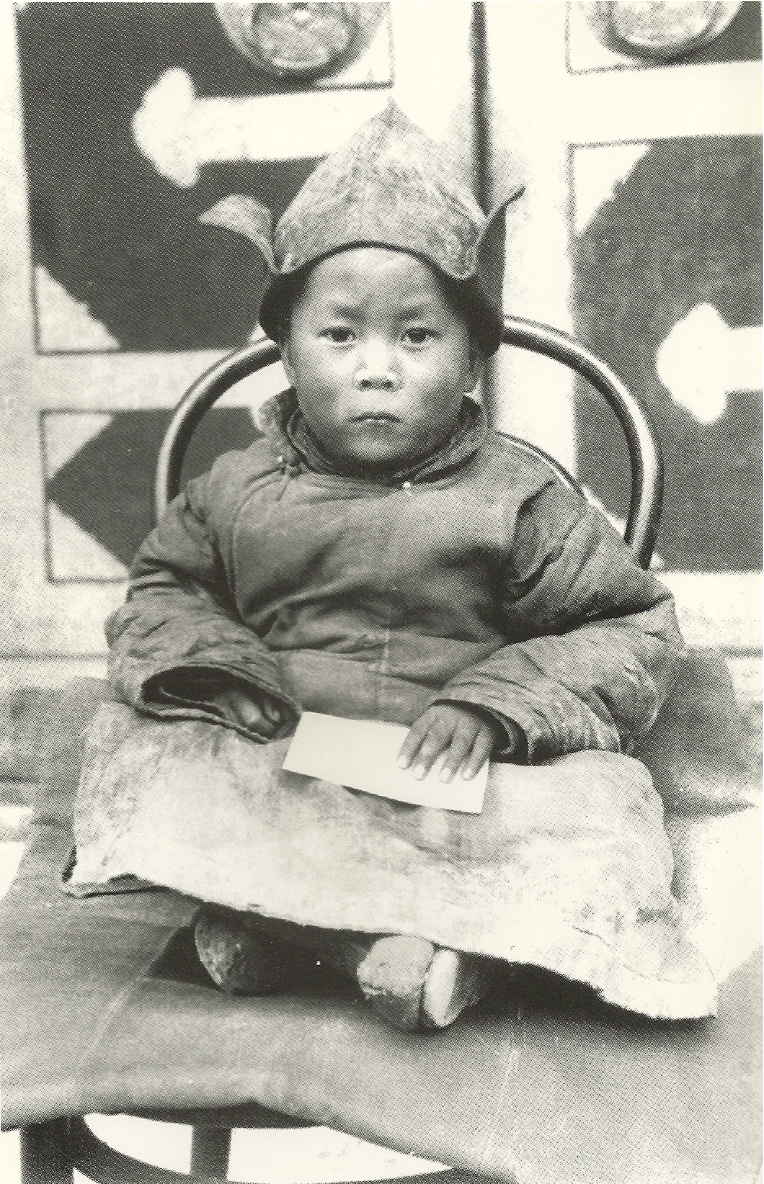 The 14th Dalai Lama as a child in Amdo, Tibet, c. 1940s